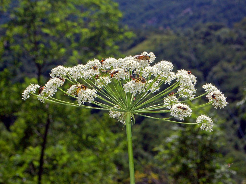 Laserpitium latifolium - Parco dell'Antola, Genova, Italy